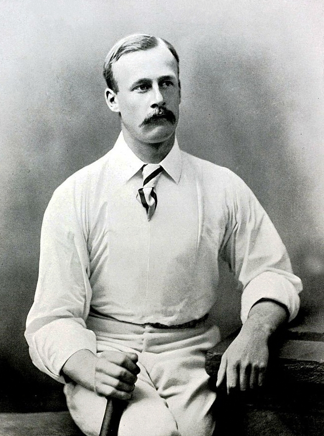 Sport, Cricket, Circa 1895, Canon William Rashleigh.